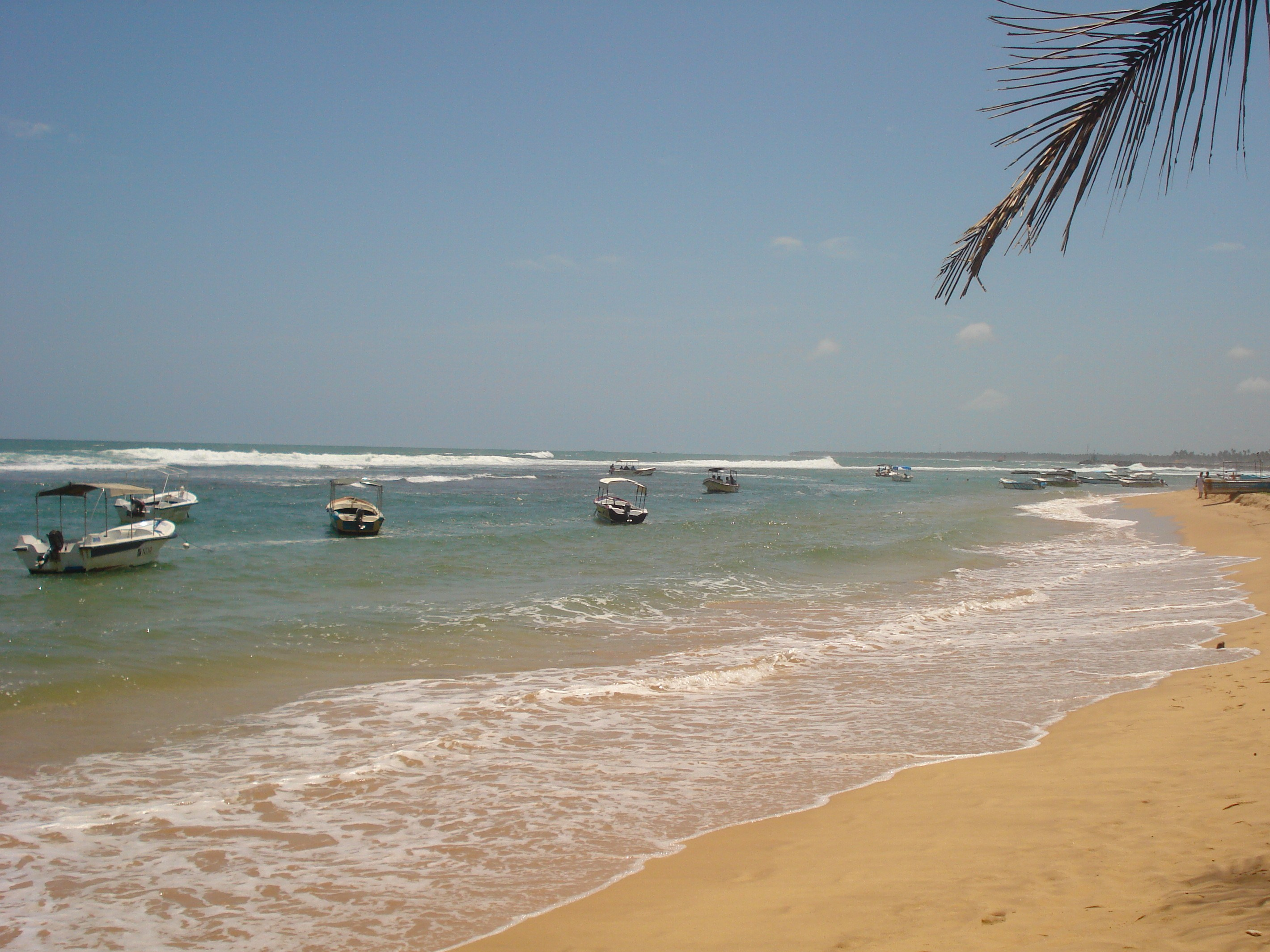 Fishing boats near the Hikkaduwa beach.